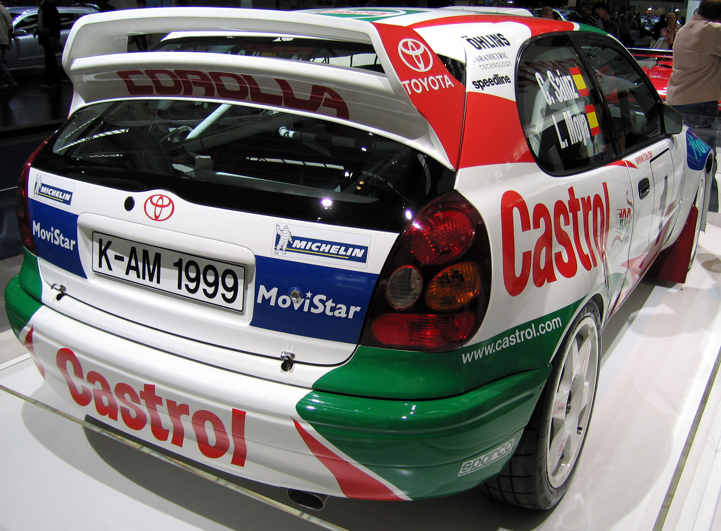 Toyota Corolla WRC 2000 at the IAA 2007